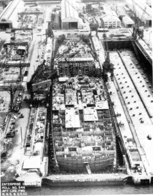 Enterprise taking shape in slipway #11, Newport News Shipbuilding.